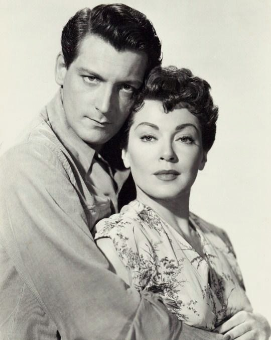 Carlos Thompson and Lana Turner in the film Flame and the Flesh (1954) - publicity still (original image damaged, modified and cropped : see source)